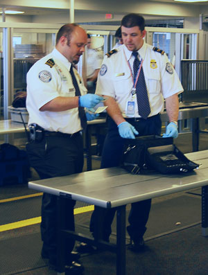 Screening Checkpoint at Boston Logan International Airport (pictured Behavior Detection Officers, Transportation Security Administration of DHS). original caption: BDOs Dave Bolduc (left) and Chris Davis at a Logan checkpoint.